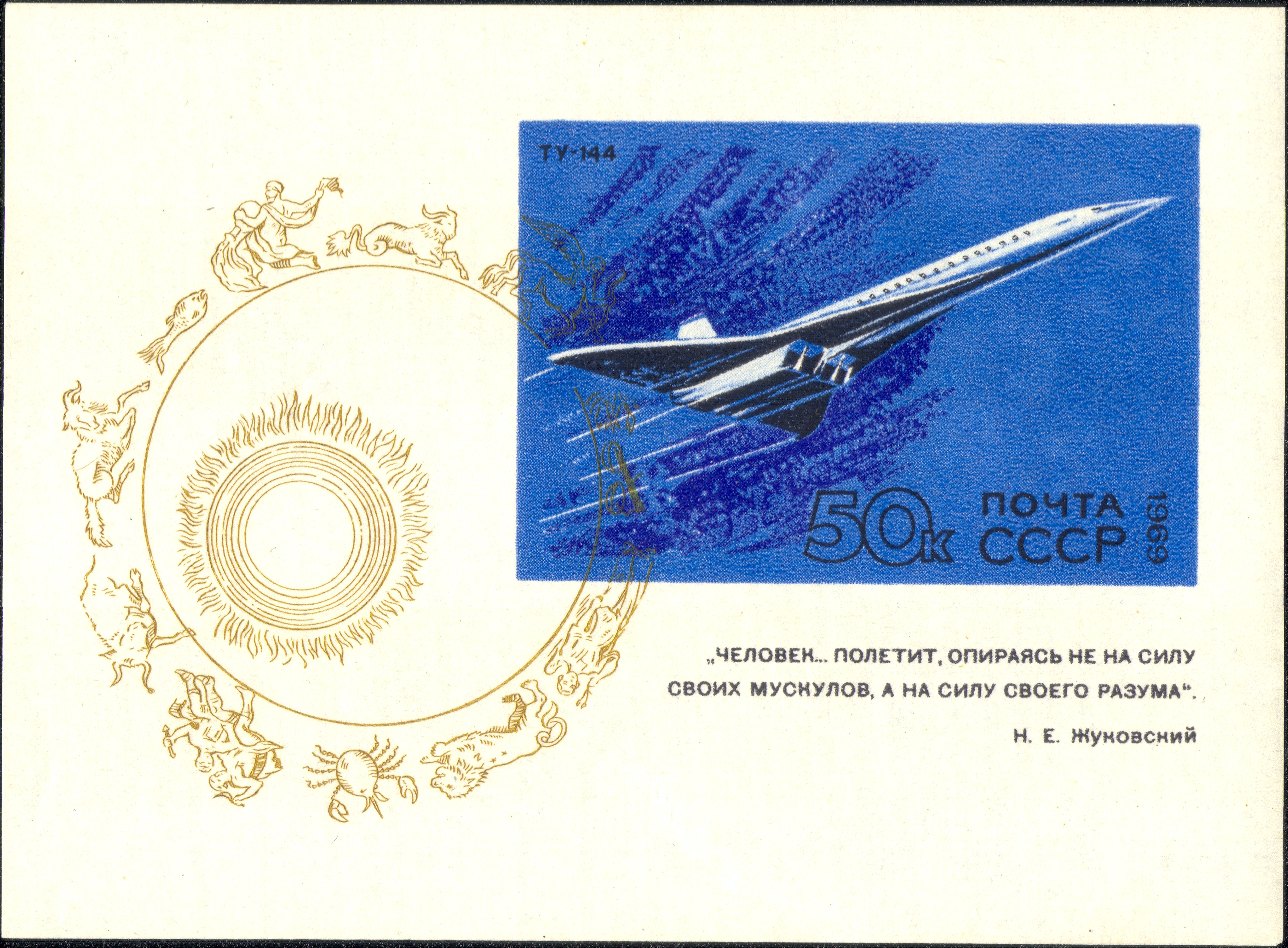 USSR sheet of 1: Supersonic Transport Aircraft Tupolev Tu-144, 1968. Signs of the Zodiac. Series: Develoment of Soviet Civil Aviation